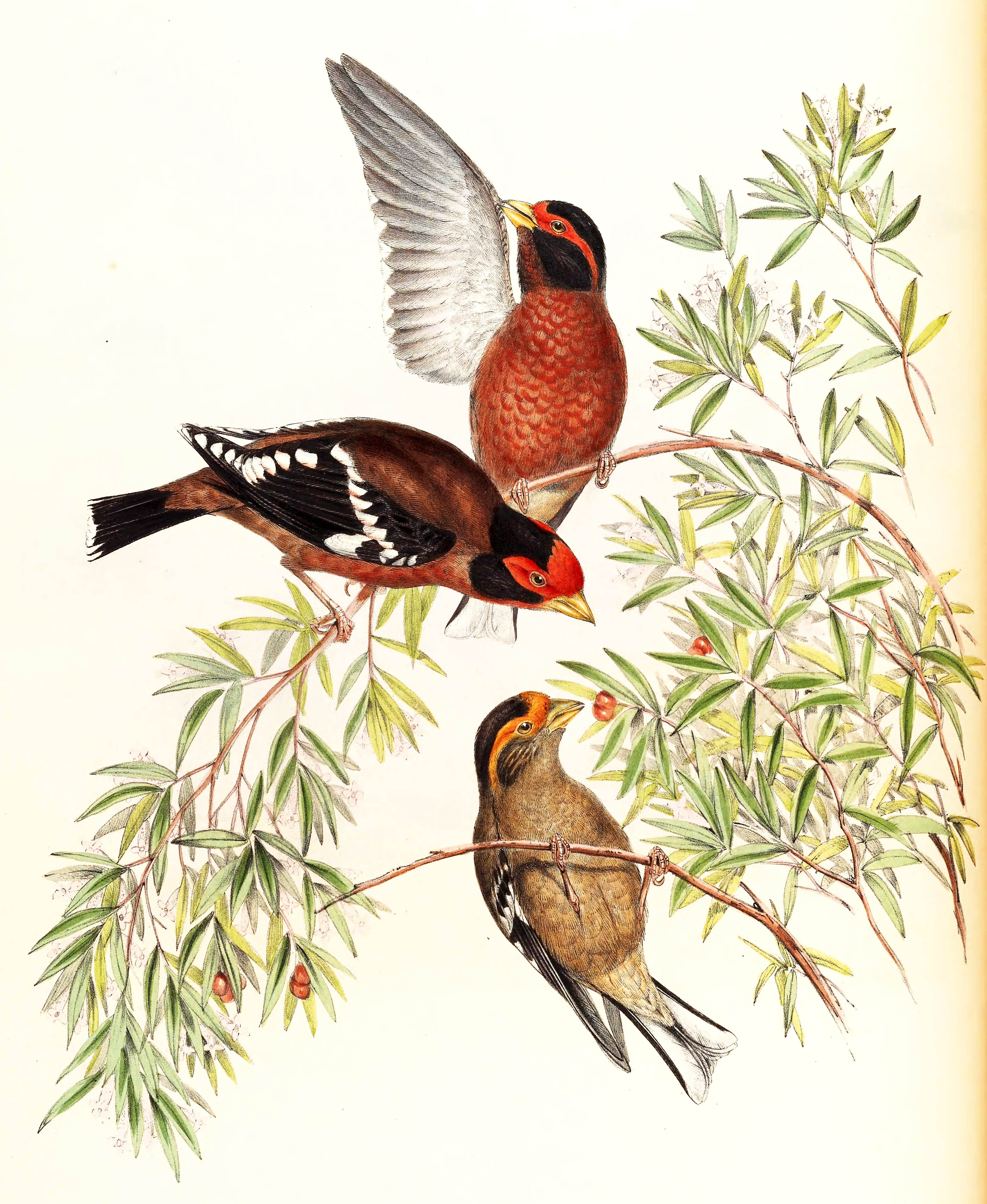 Spectacled Finch (Red-browed Finch) Callacanthis burtoni (Gould)